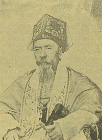 Joseph-Martial Mouly, C.M. (1807-1868), vicar apostolic of Mongolia and Northern Chi-Li